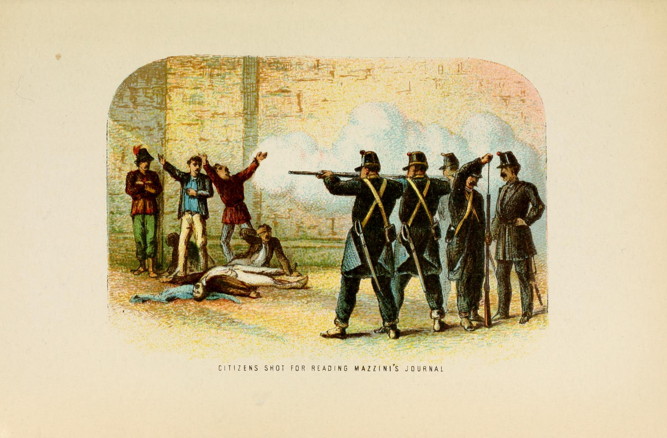 Life of Giuseppe Garibaldi, Italian hero and patriot (1888) Author: Blackett, Howard Subject: Garibaldi, Giuseppe Publisher: London, Scott Possible copyright status: NOT_IN_COPYRIGHT Language: English Call number: AEK-8423 Digitizing sponsor: MSN Book contributor: Robarts - University of Toronto Collection: robarts; toronto Scanfactors: 34 Full catalog record: MARCXML